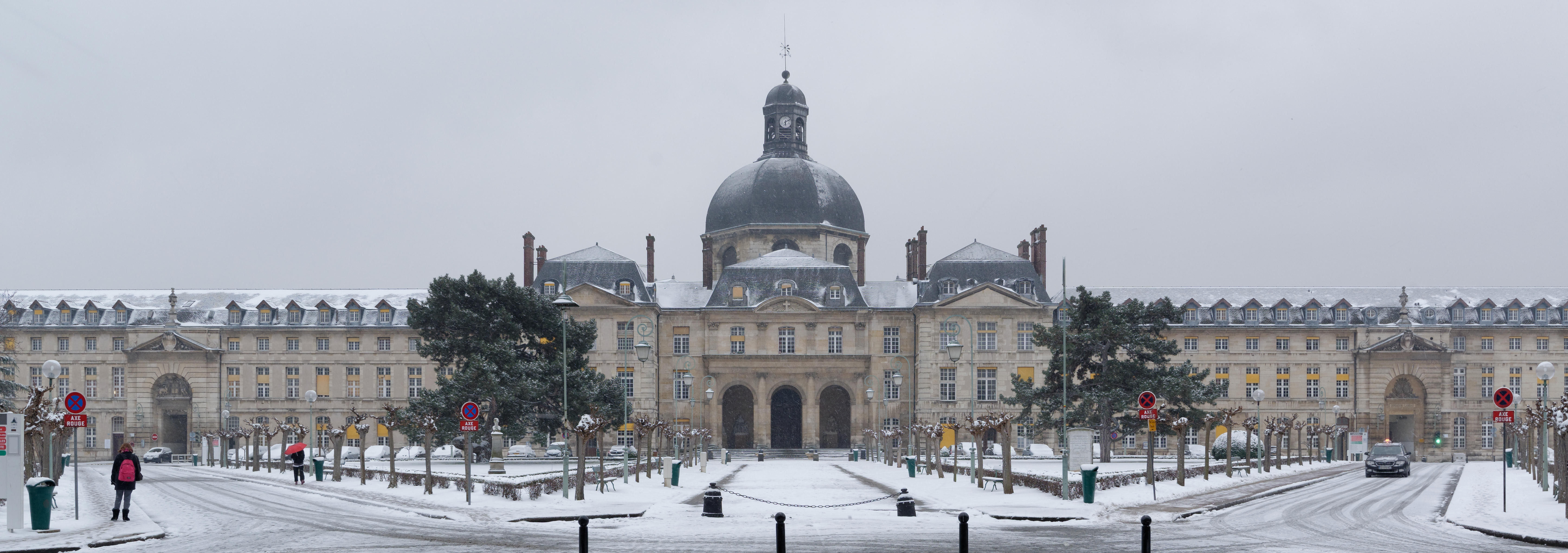 The Pitié-Salpêtrière Hospital under the snow. Paris, 13th arrondissement.